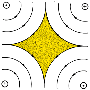 Cusp field generated from opposing magnets in a "high-beta" plasma condition. This is a biconic cusp configuration.